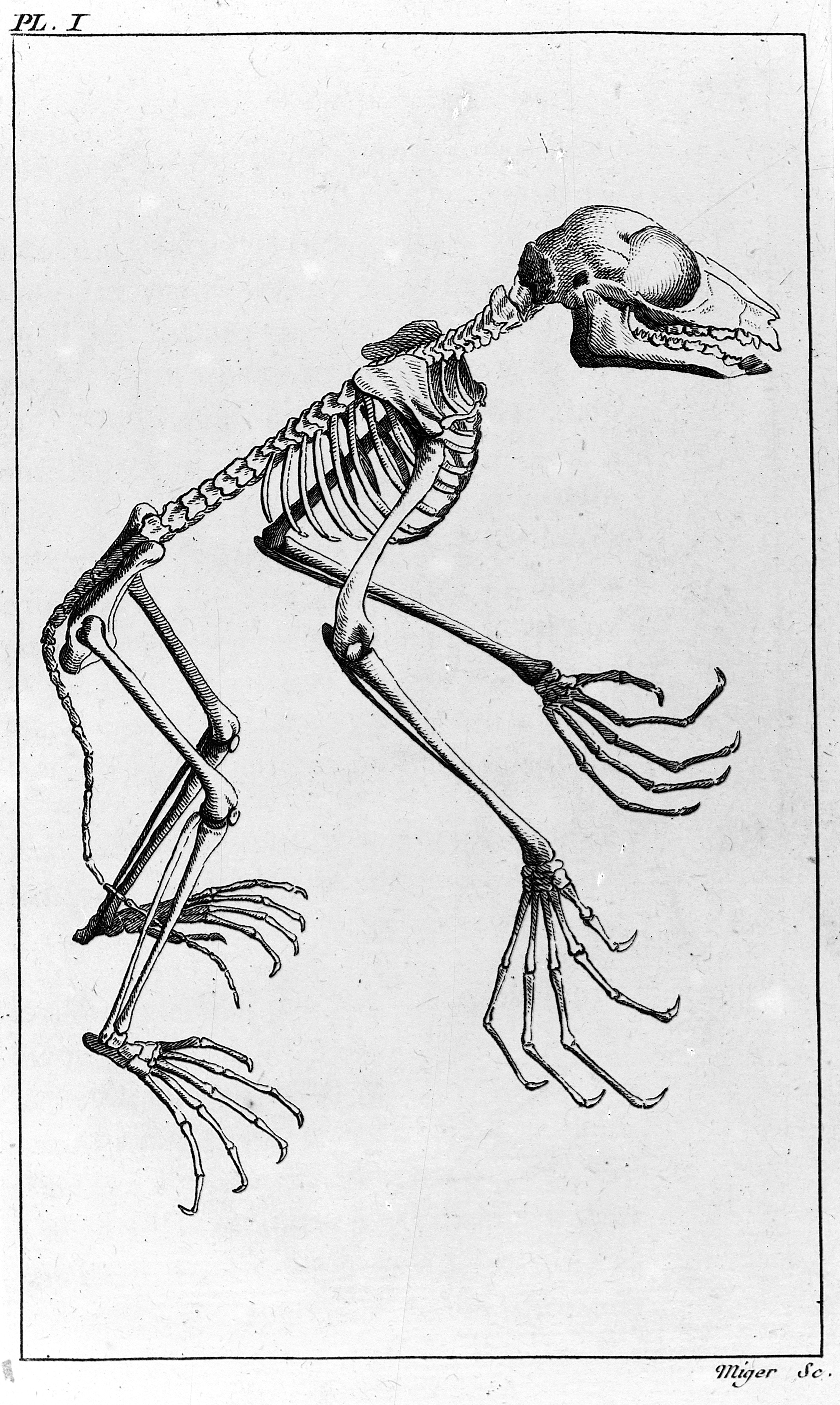 Comparative series of stomachs. -1. The flying Lemur. Rare Books Keywords: Anatomy